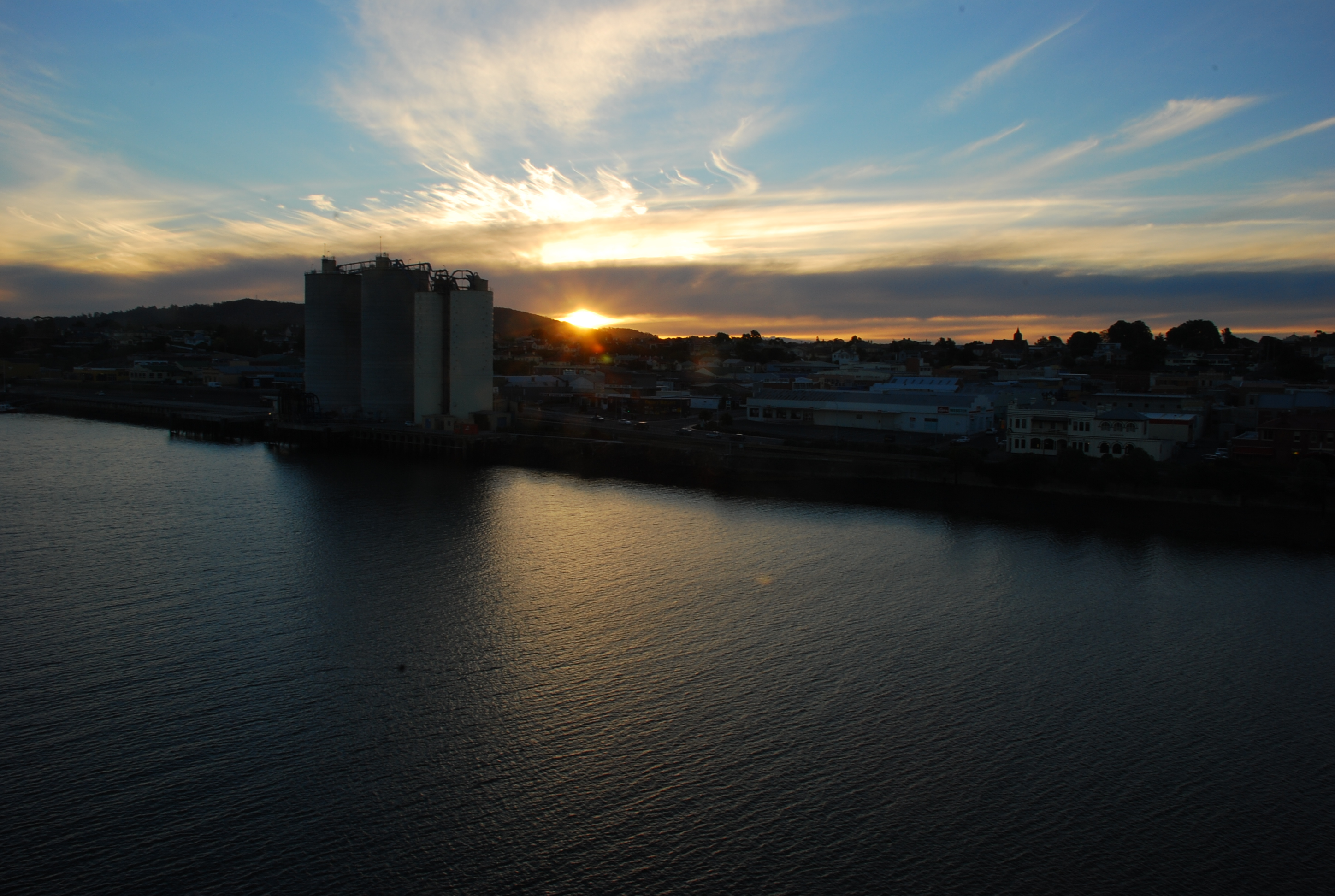 Devonport bank of Mersey river